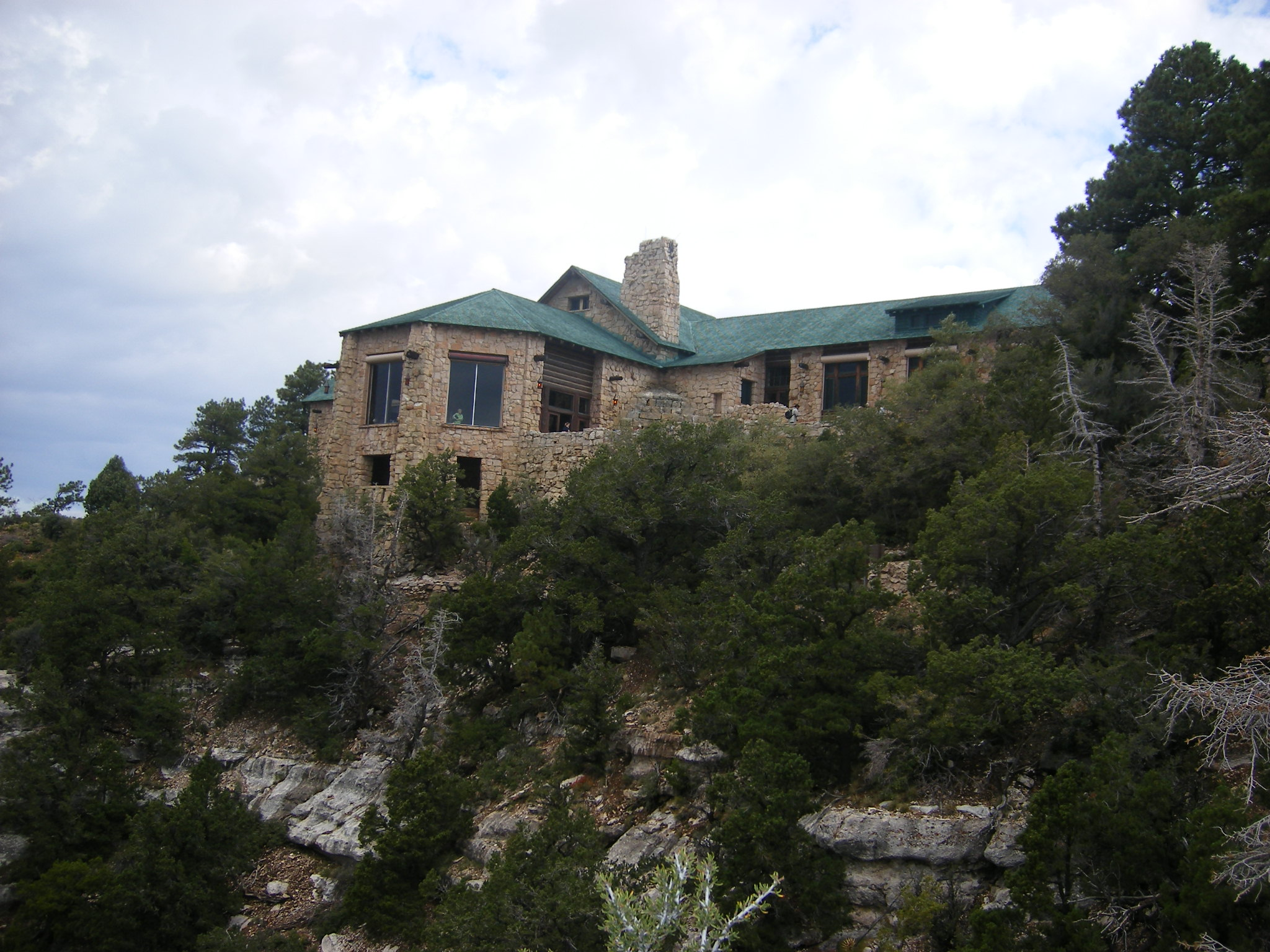 Grand Canyon Lodge, North Rim -- The fancy lodge at the North Rim of the Grand Canyon.